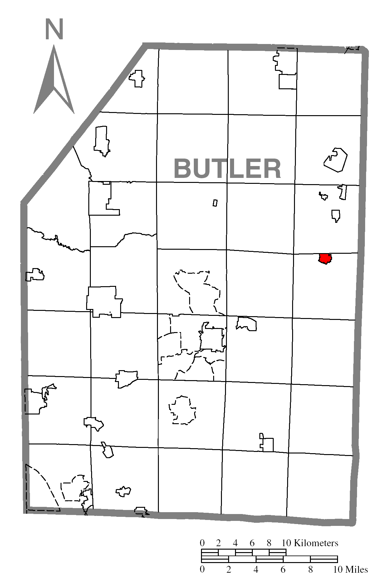 A map of Butler County showing Chicora, Pennsylvania (alternate) highlighted on the map.